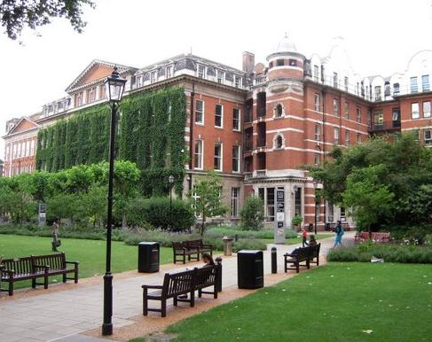 Guy's Campus